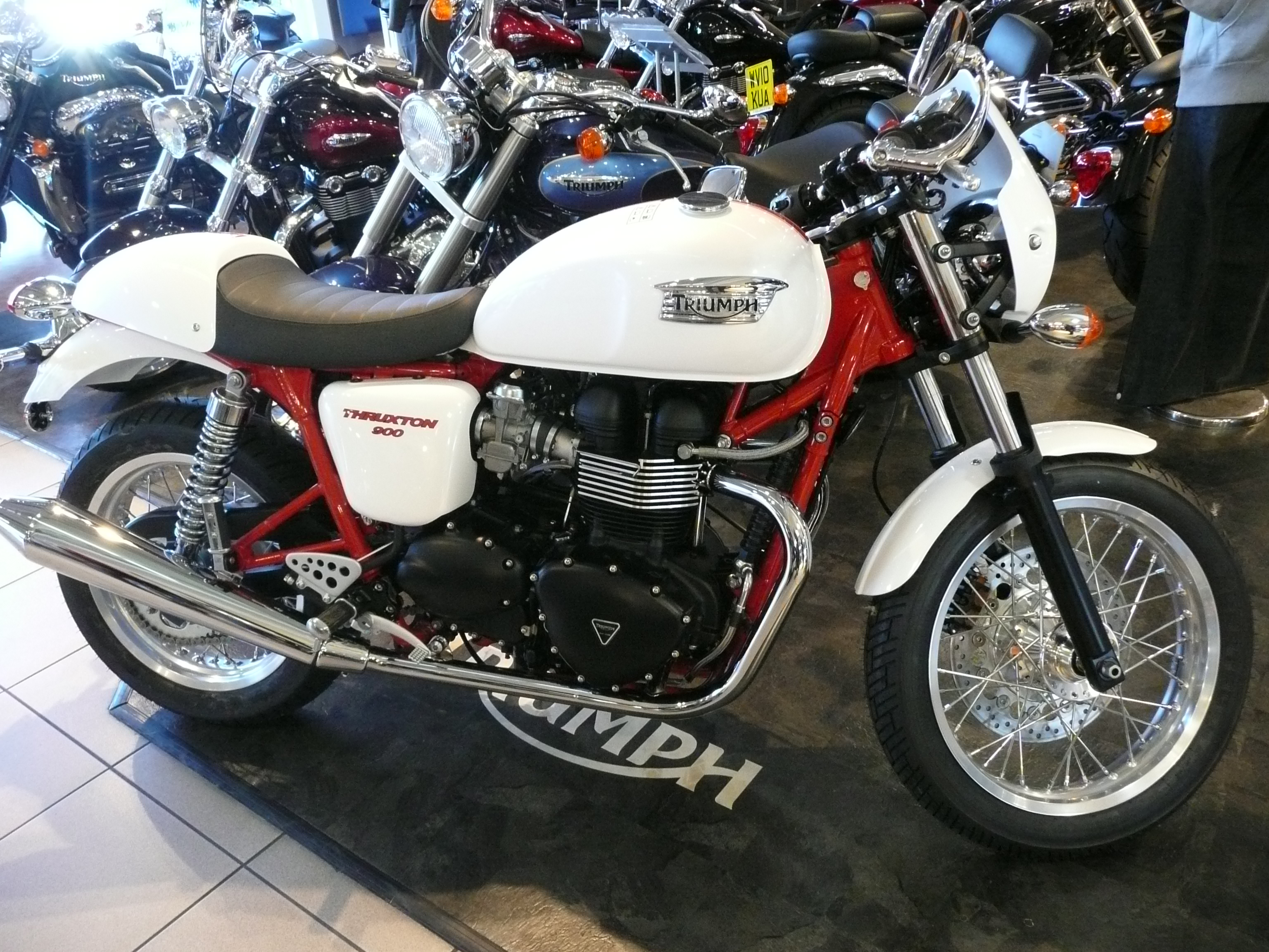 Triumph Thruxton 900cc brand new in dealers showroom in Bristol